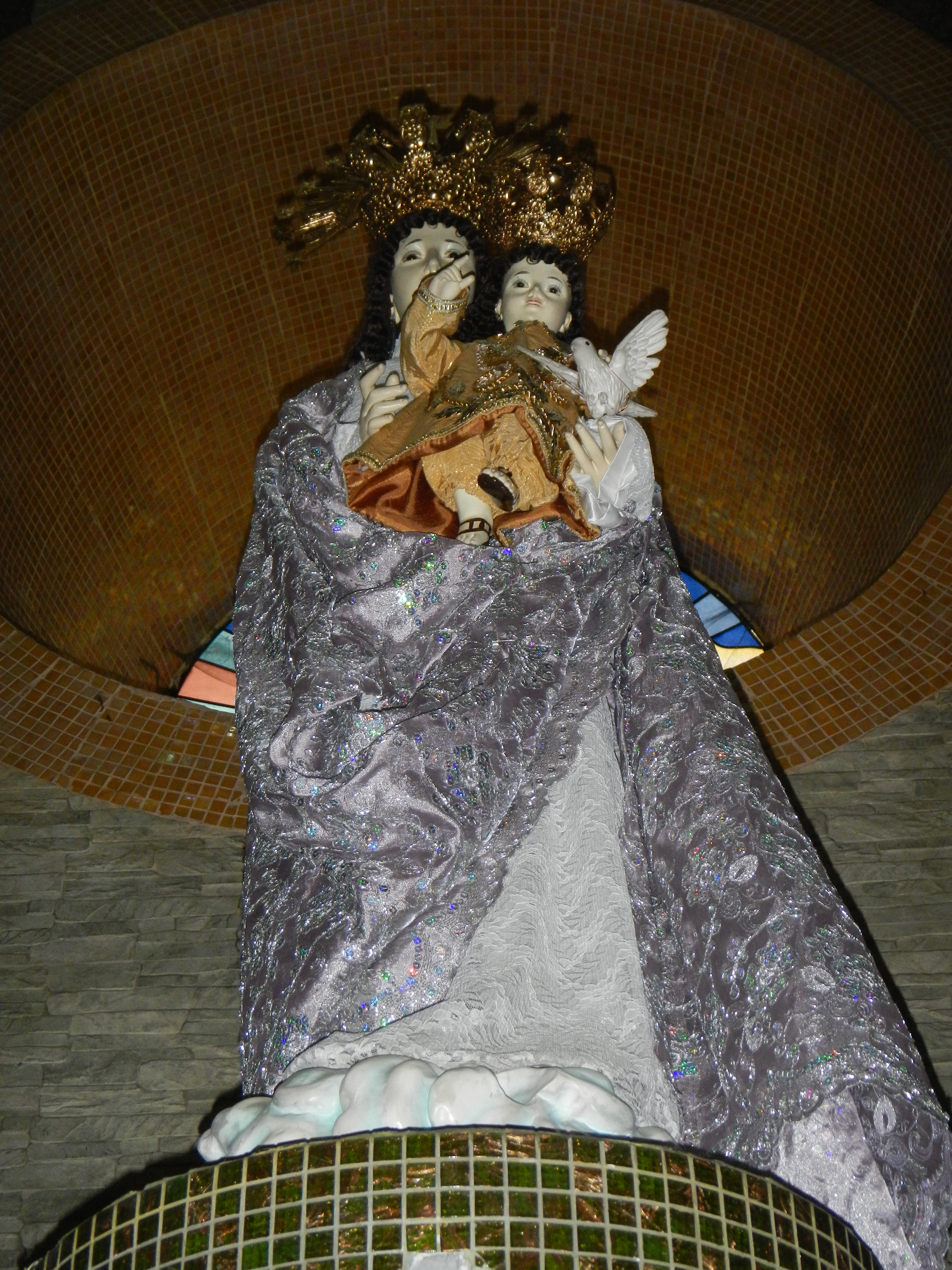 Sta Cruz Parish (Sta. Cruz)[1]Santa Cruz Church is essentially Baroque and somewhat reminiscent of the Spanish-built mission churches in Southern California.[2]